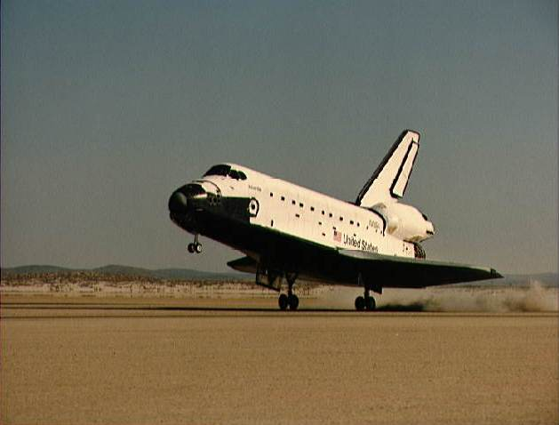 Front view of the landing of the Shuttle Atlantis on the dry desert lakebed of Edwards Air Force Base, California. The wheels are just about to touch the ground at the end of the STS 51-J mission (41800); Side view of the landing gear touching down at Edwards AFB at end of STS 51-J mission; Angle view of the landing gear touching down at Edwards AFB at end of STS 51-J mission